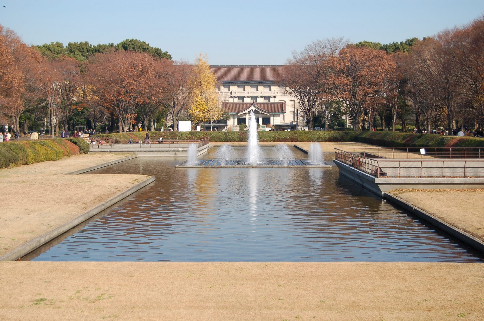 fountain of Ueno Park, Tokyo, Japan